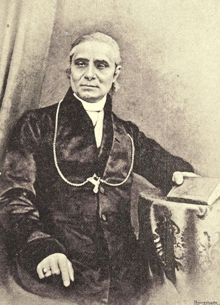 Right Rev James Gillis 1897 History of St Margaret's Convent Edinburgh and auto biog of Ann Agnes Xavier Trail. Now part of Gillis Centre